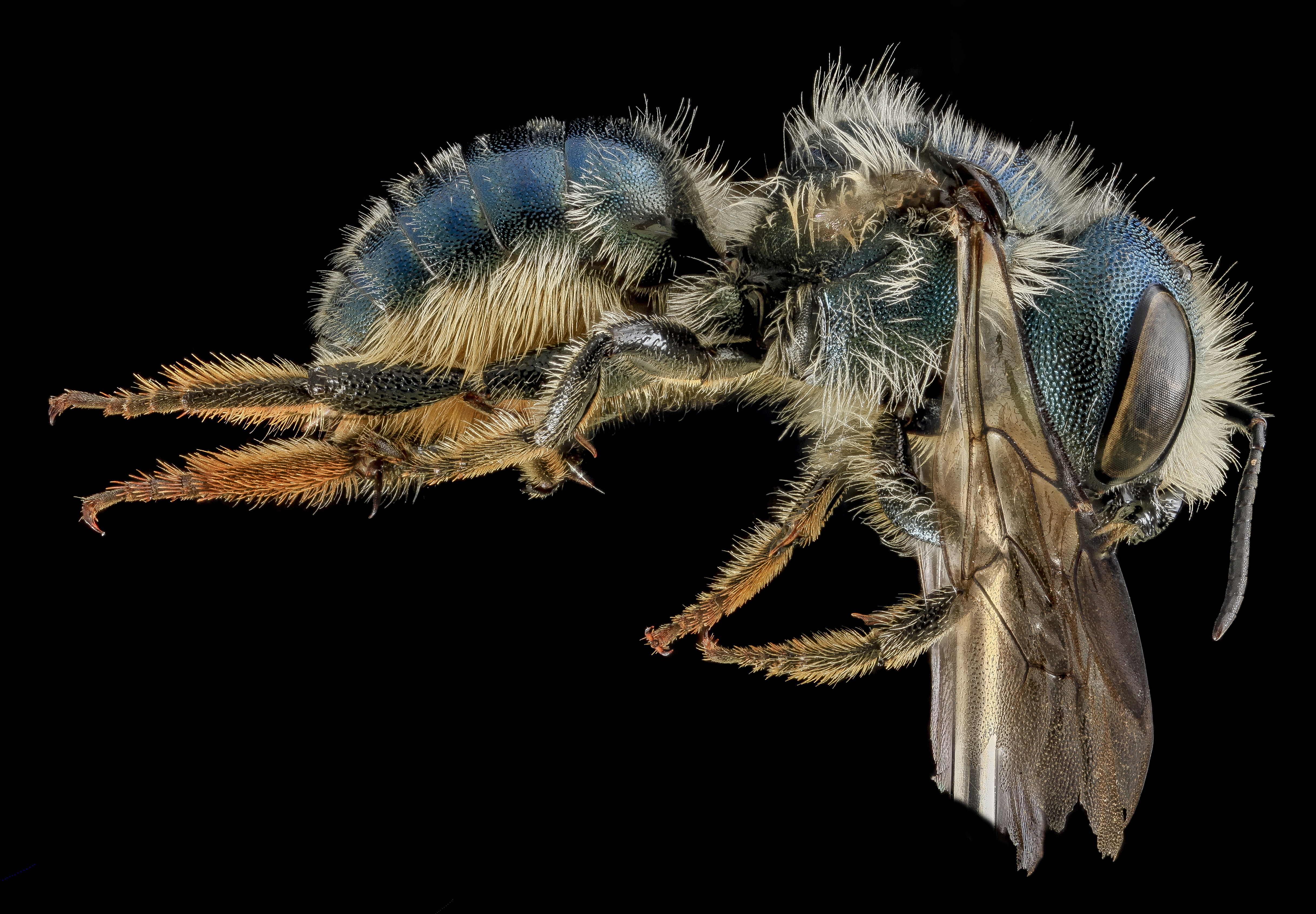 Osmia georgica - Note the slight orangish tone to the hairs under the abdomen. These are used to carry the pollen they collect while out and about. Found in Maryland and photographed by Sue Boo